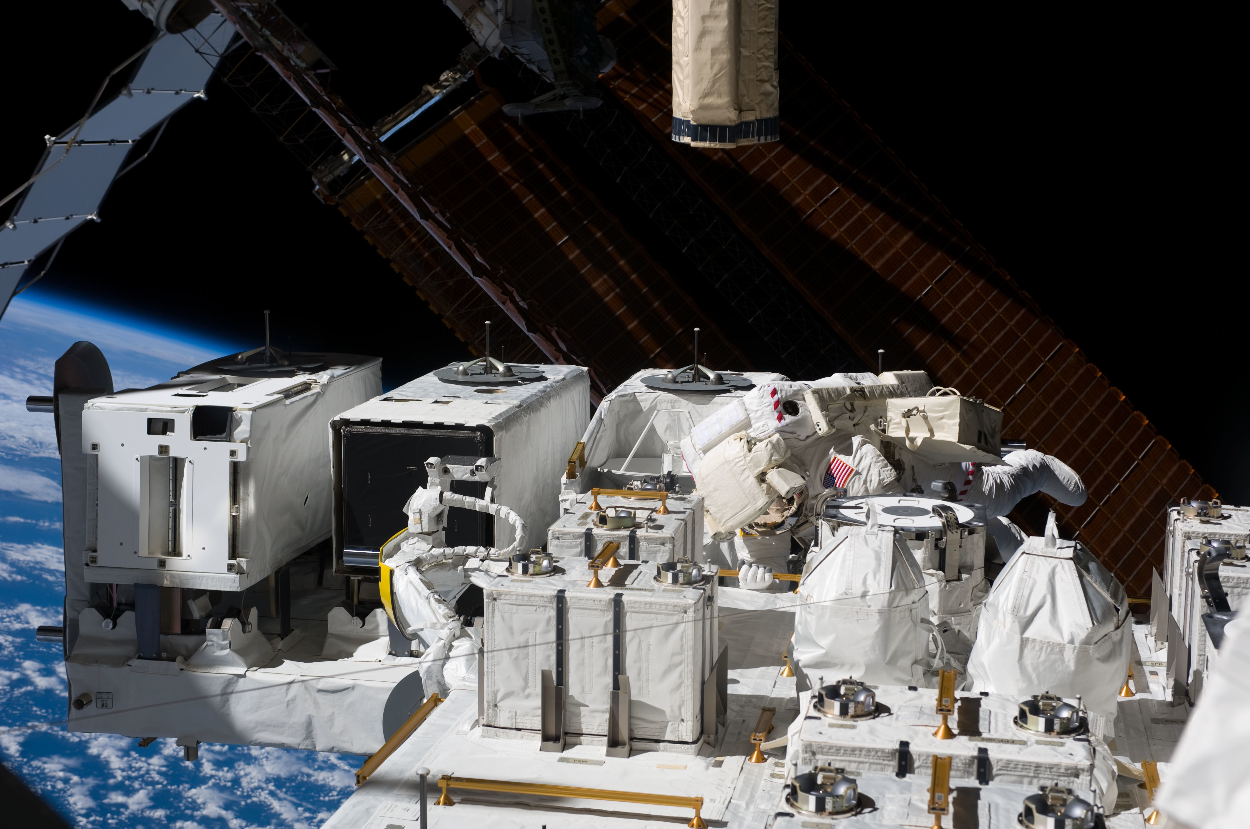 This is a view of the Japanese Experiment Module - Exposed Facility which has been a major subject of attention by the joint crews aboard the International Space Station, currently docked with the Space Shuttle Endeavour. July 22 activity saw both hands-on and robotics work with the new hardware.